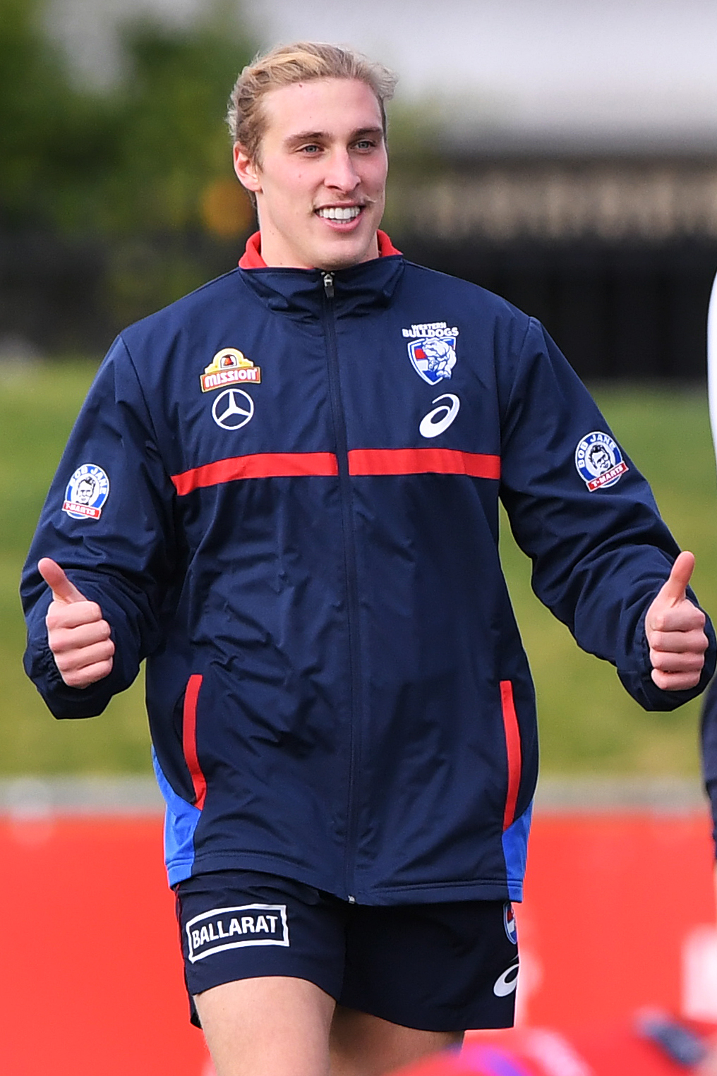 Roarke Smith of the Western Bulldogs during Western Bulldogs training on 7 August 2018 at Whitten Oval in Melbourne, Victoria.